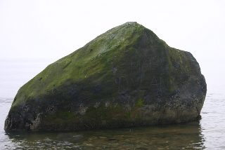 Maen Dylan (Dylan's Rock)